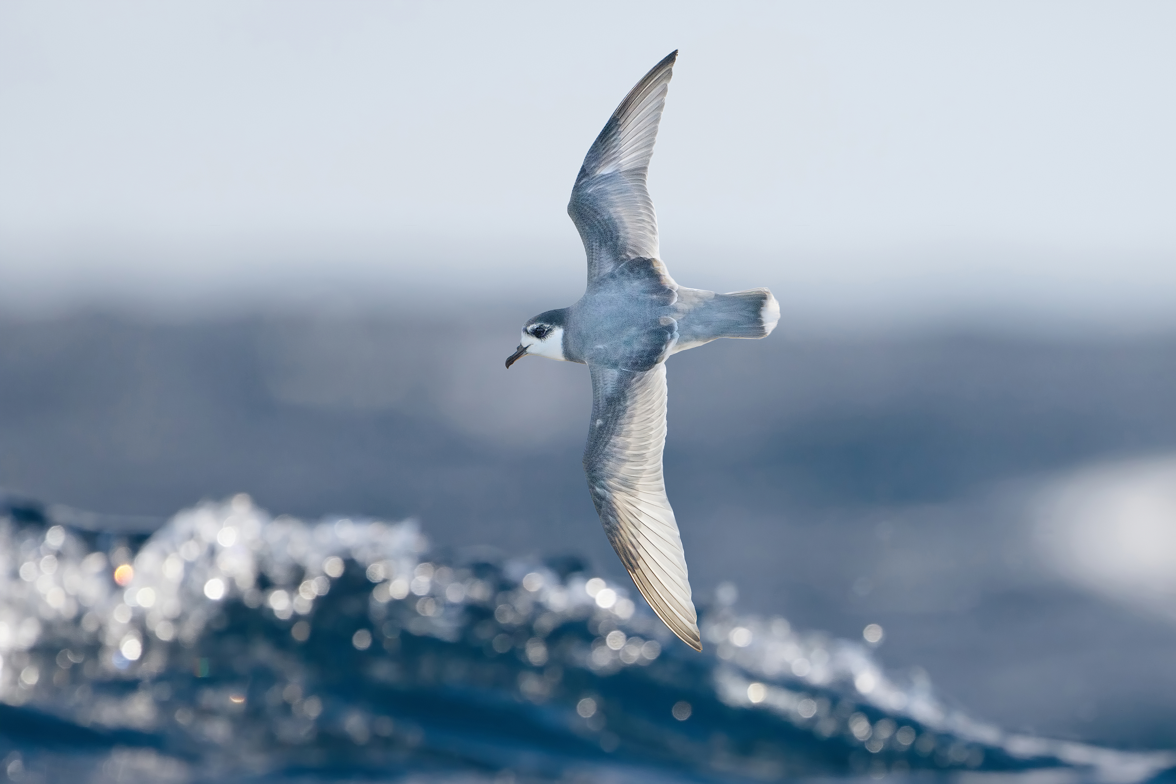 Blue Petrel (Halobaena caerulea) , east of the Tasman Peninsula, Tasmania, Australia.